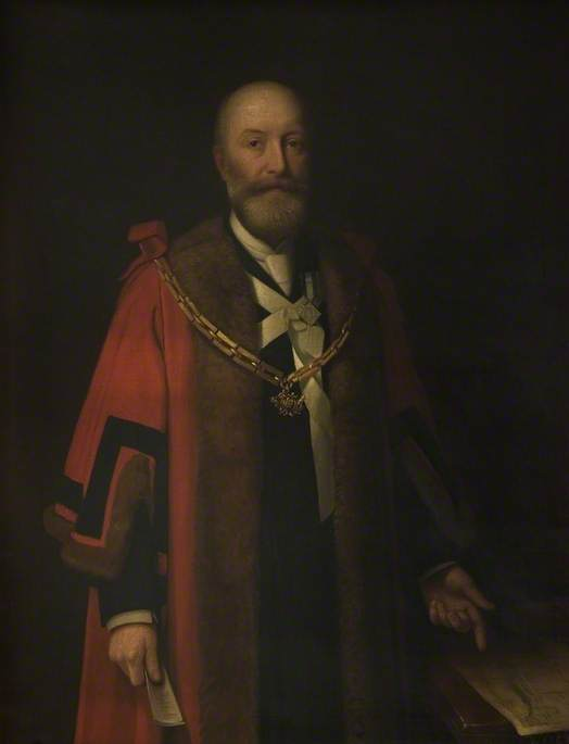 George Wells Mayor of Bedford in Bedfordshire, England 1890s